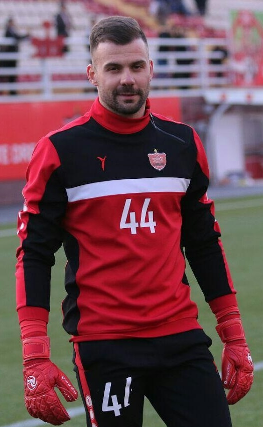 Božidar Radošević